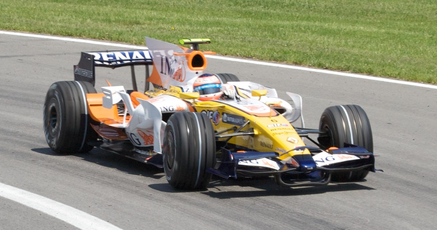 Nelson Piquet driving for Renault F1 at the 2008 Canadian Grand Prix.